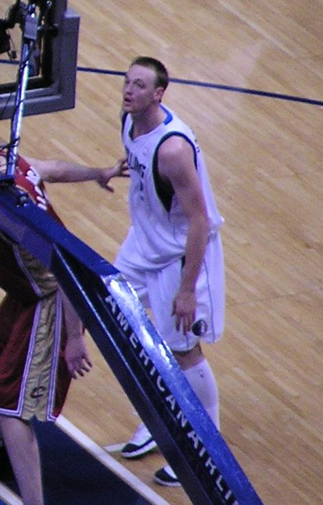 Keith Van Horn with the Dallas Mavericks, March 2005.